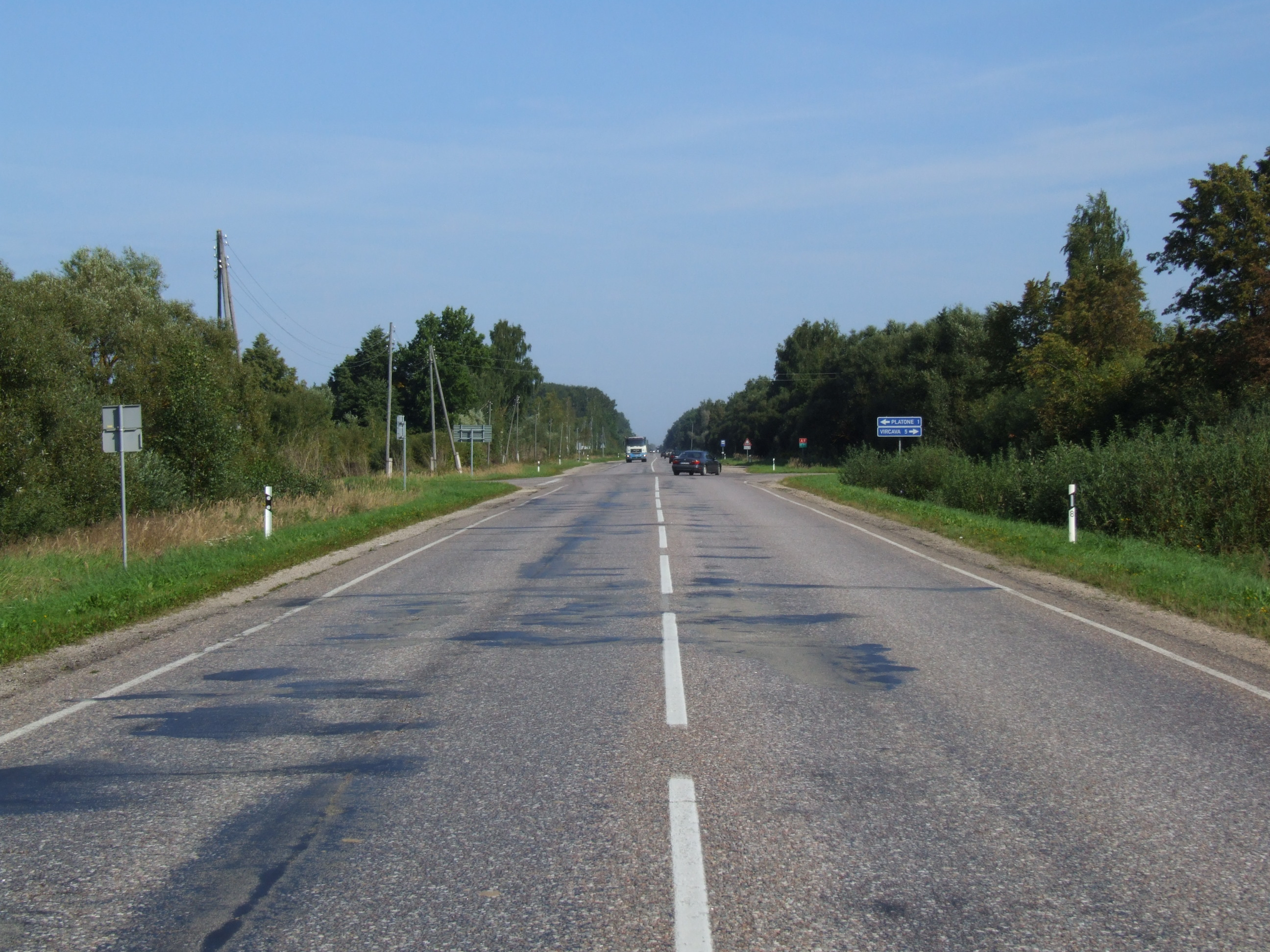 A8 road in Latvia, near Jelgava